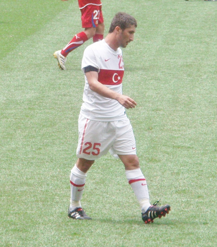 Sabri Sarıoğlu playing for the Turkish National Football Team